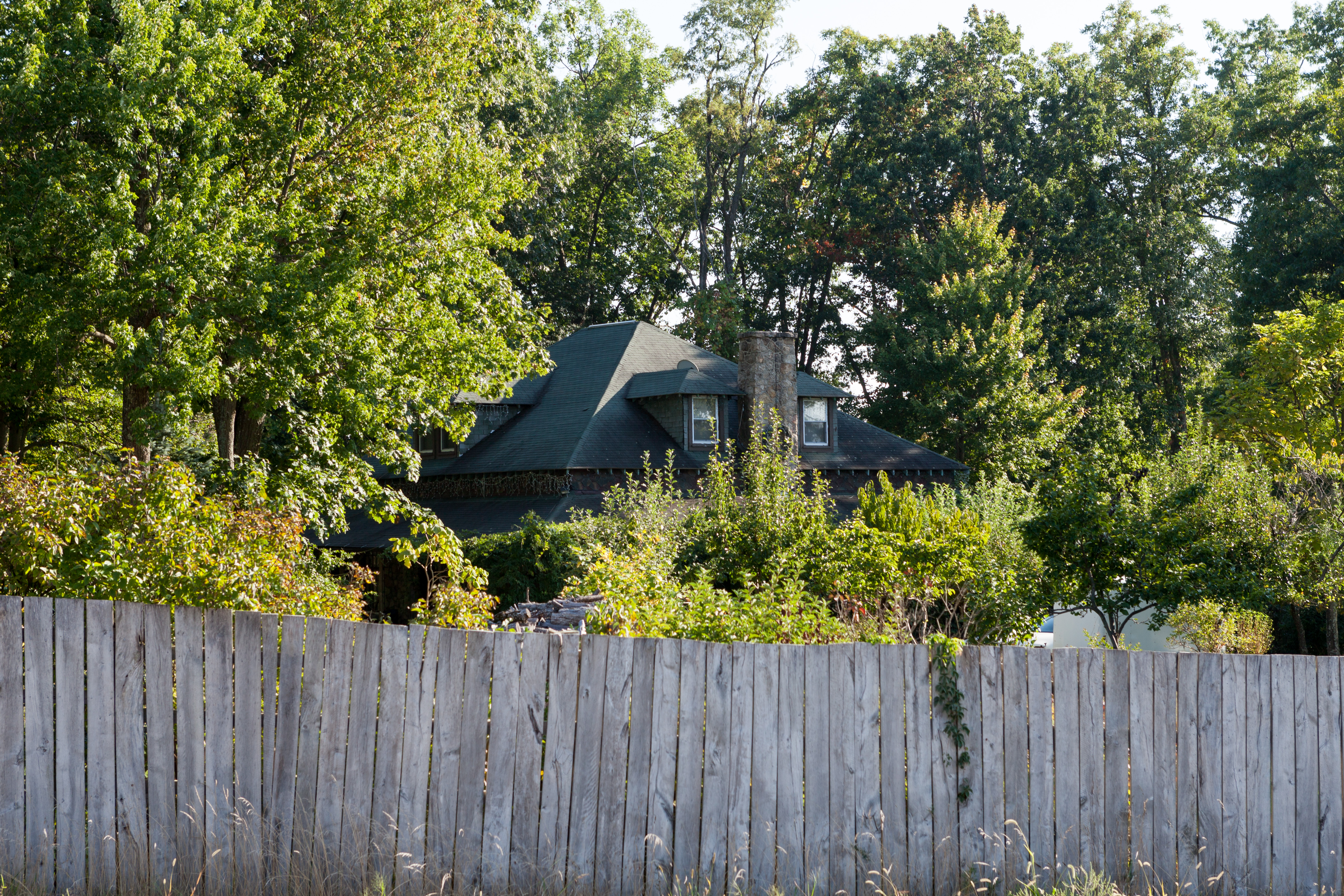 The upper story and roof of the historic Indian Rocks Dining Hall, visible from West Virgina Route 7, near Reedsville, West Virginia.